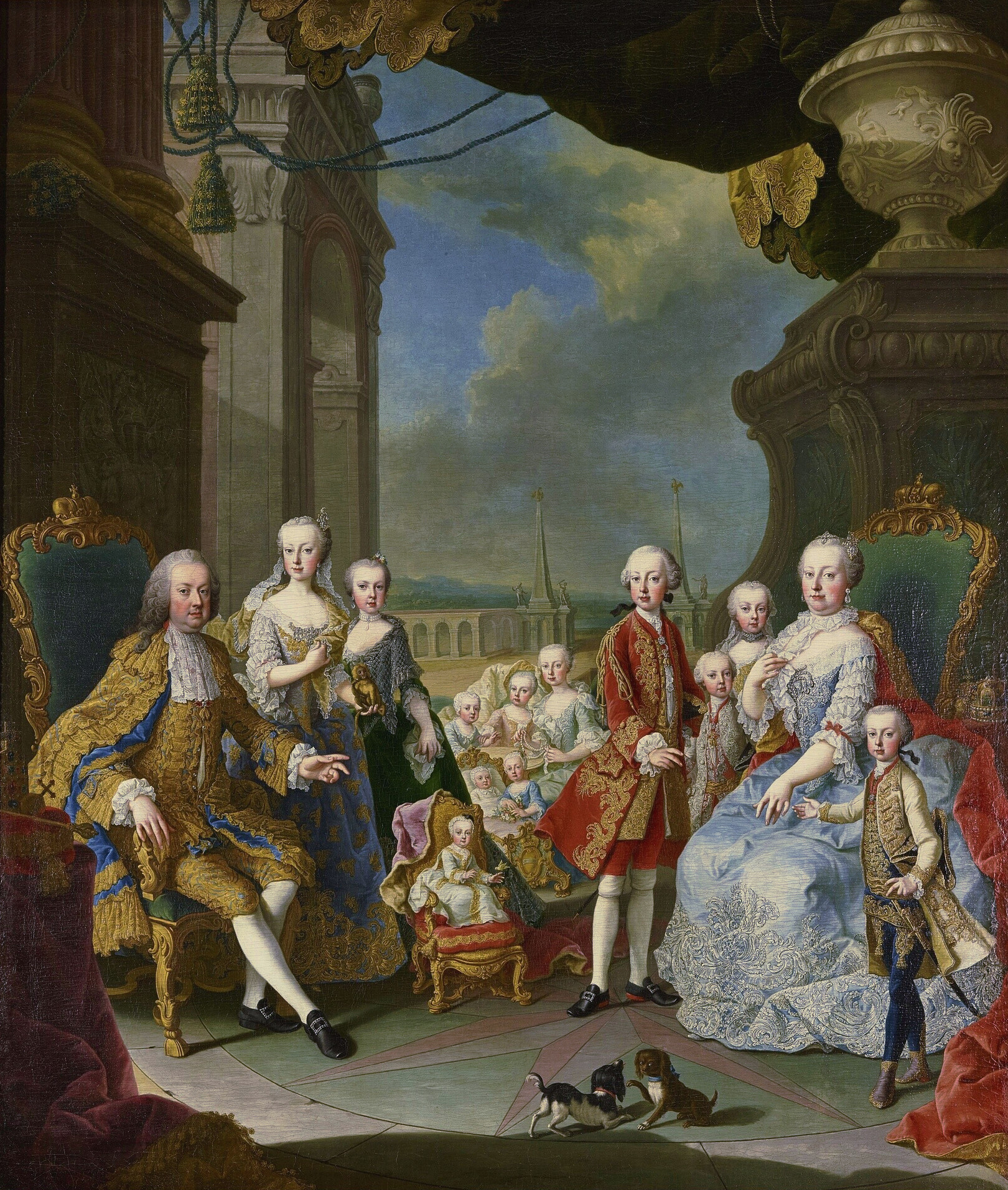 The Imperial family in 1756 after the birth of Marie-Antoinette.